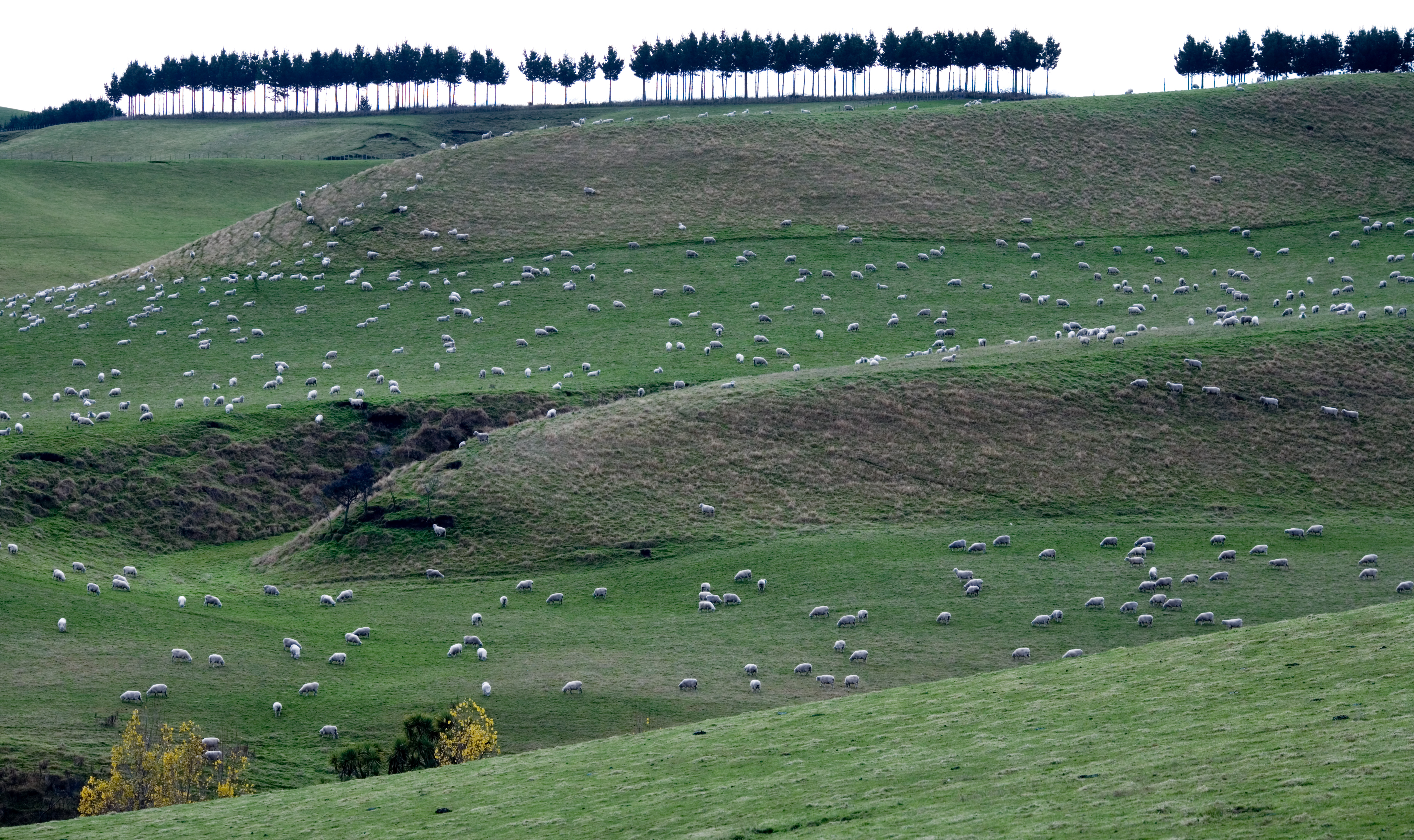 Sheep in New Zealand Landscape close to Mount Ruapehu, 2006